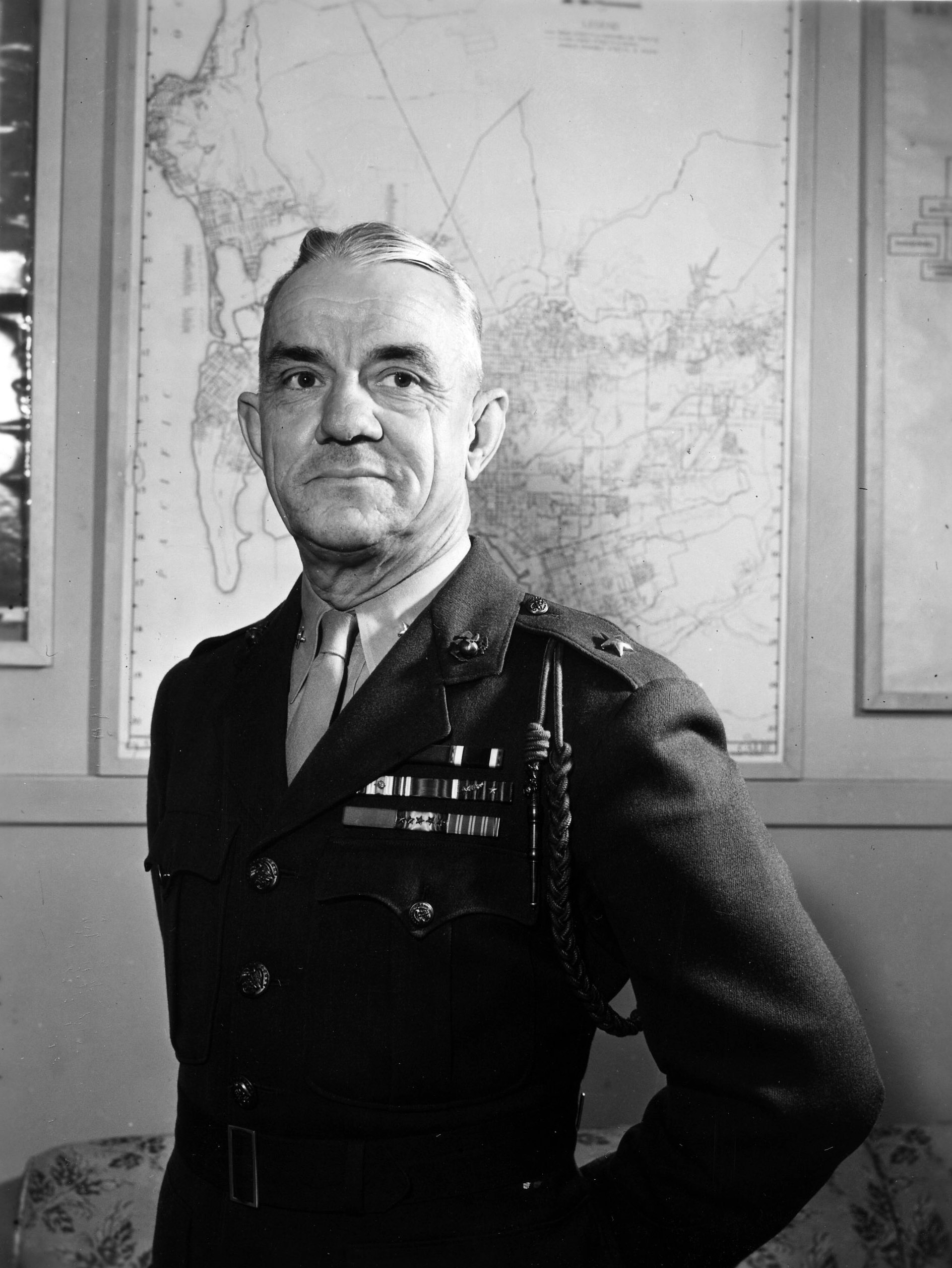 Matthew Henry Kingman (March 1, 1890 - November 16, 1946) was a decorated Officer of the United States Marine Corps with the rank of Brigadier General, who is most noted for his service as Commanding officer of the 6th Machine Gun Battalion during World War I and as Commanding General of training center at Camp Elliott, California during World War II.